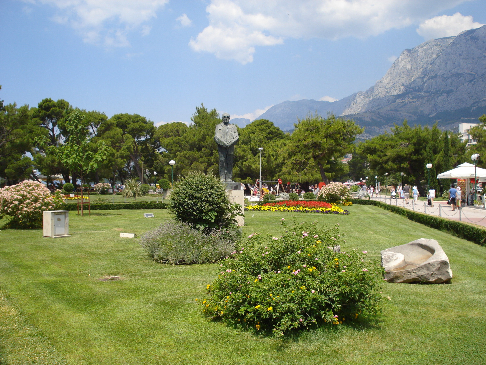 Park at Dr. Franjo Tudjman Promenade in Makarska, Croatia